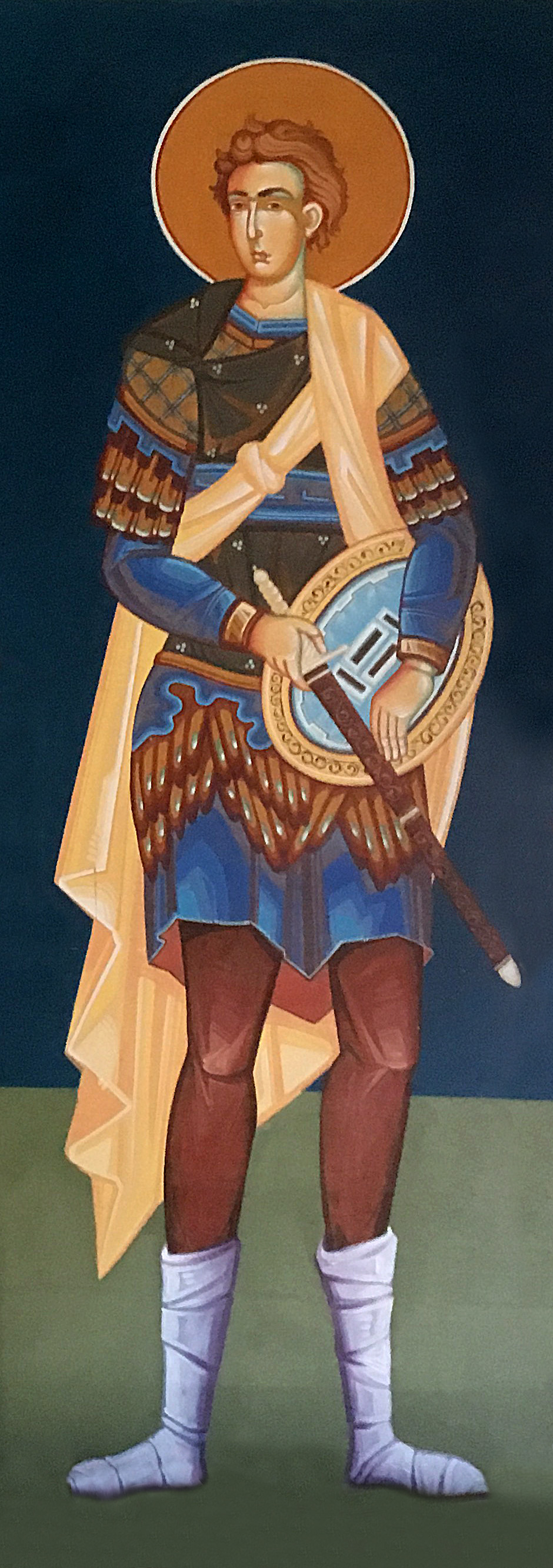 Saint Nestor of Thessaloniki (contemporary orthodox iconography) Serbia